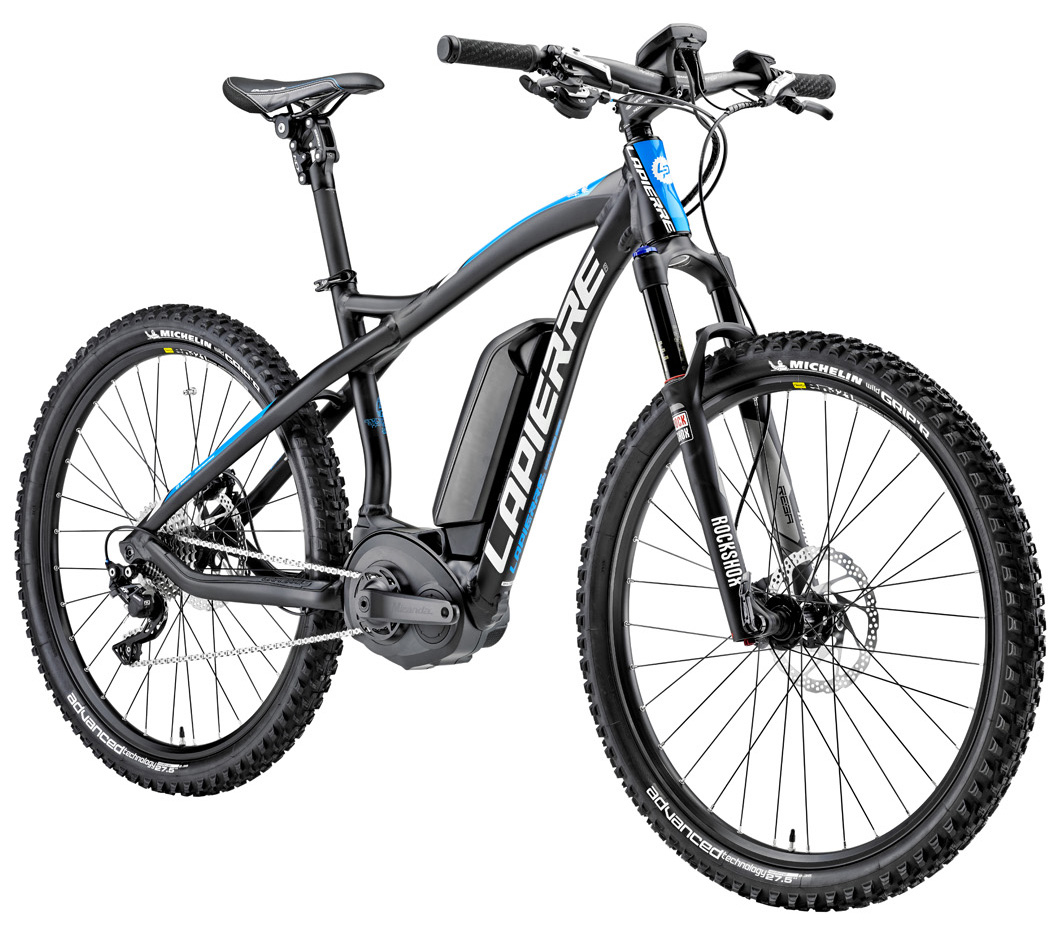 Lapierre Overvolt 900 FS